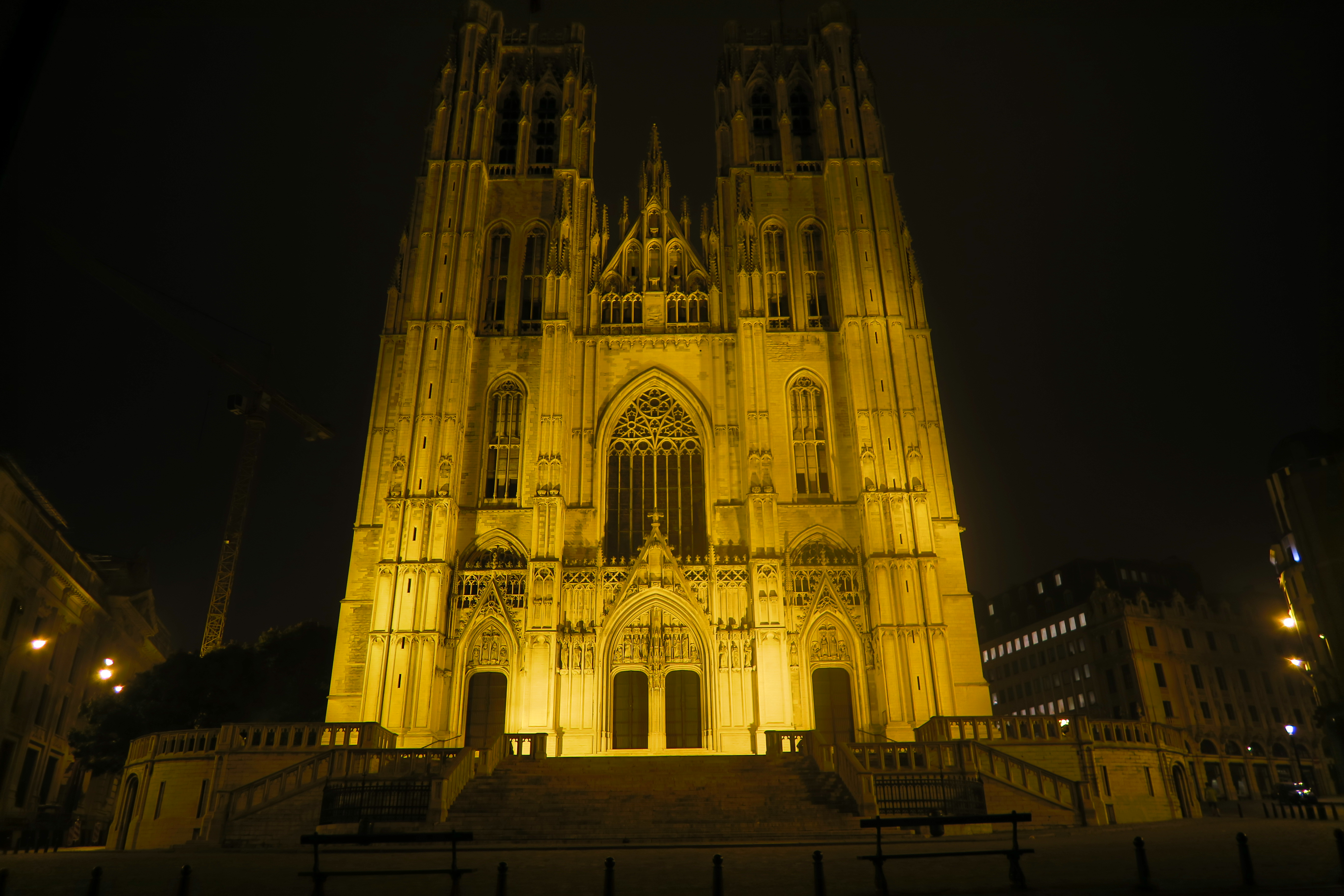 Cathedral of St. Michael and St. Gudula Brussel , Belgium